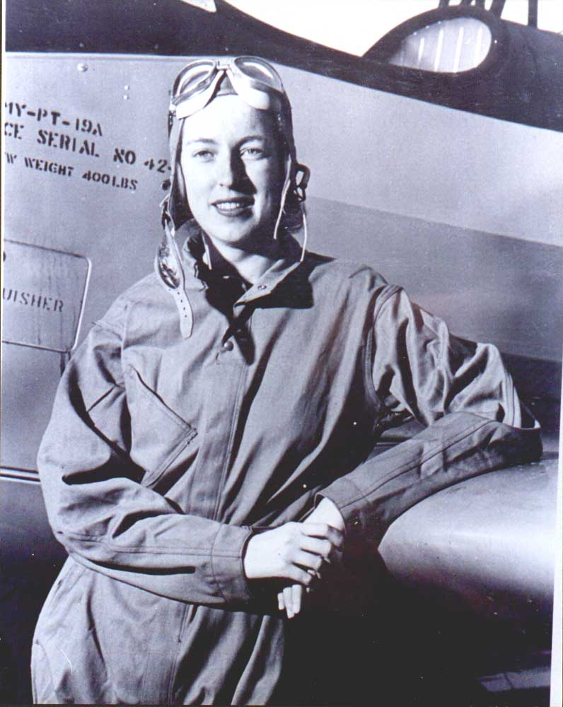 Cornelia Fort (with a PT-19A) was a civilian instructor pilot at an airfield near Pearl Harbor, Hawaii, when the Japanese attacked on Dec. 7, 1941.